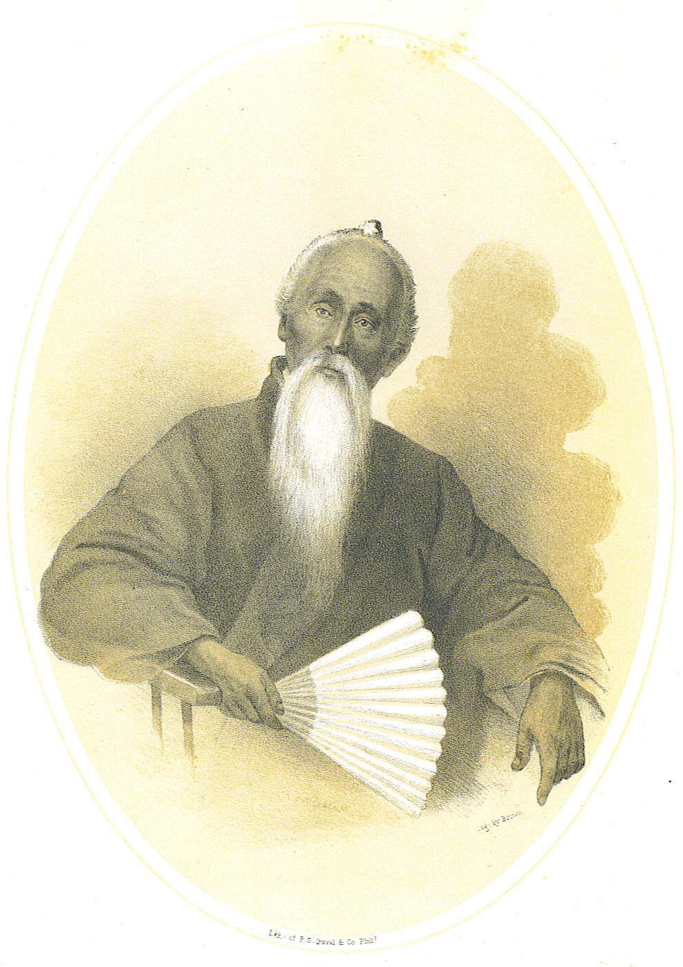 Print is entitled "Chief Magistrate of Napha, Lew Chew" (Ryukyu Islands were also known as Luchu, Loochoo, or Lewchew Islands in the 1850s). This is an original 1850s oval portrait. Note very small print between open fan and extended hand reads "Dag. by E. Brown"; and at bottom, "Lith. of P.S. Duval & Co. Phila"